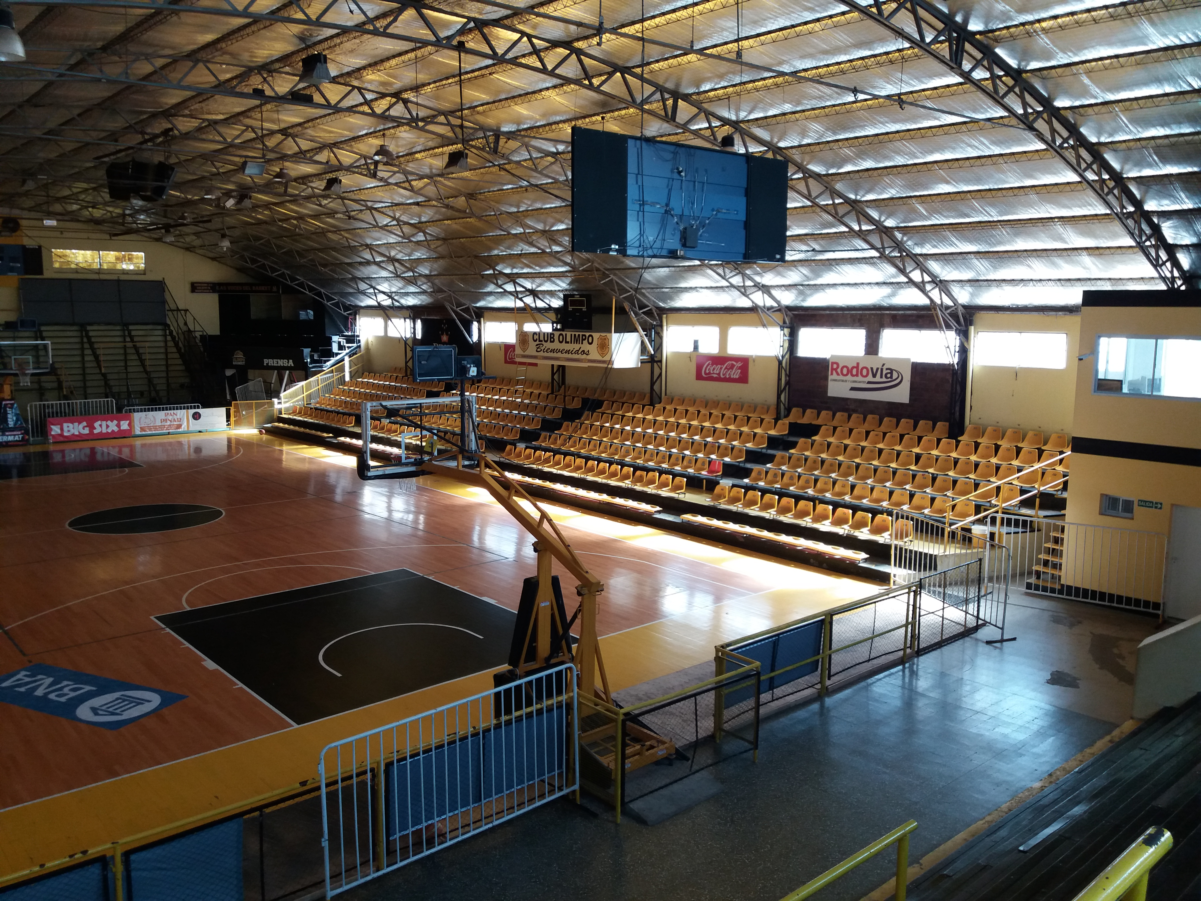 Norberto Tomas